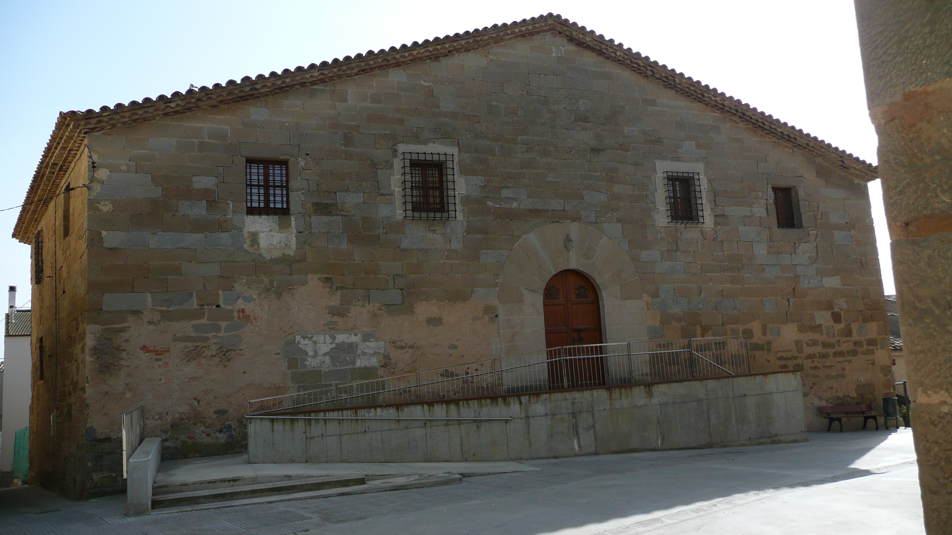 Panera's buiding in Castellserà (Urgell shire).